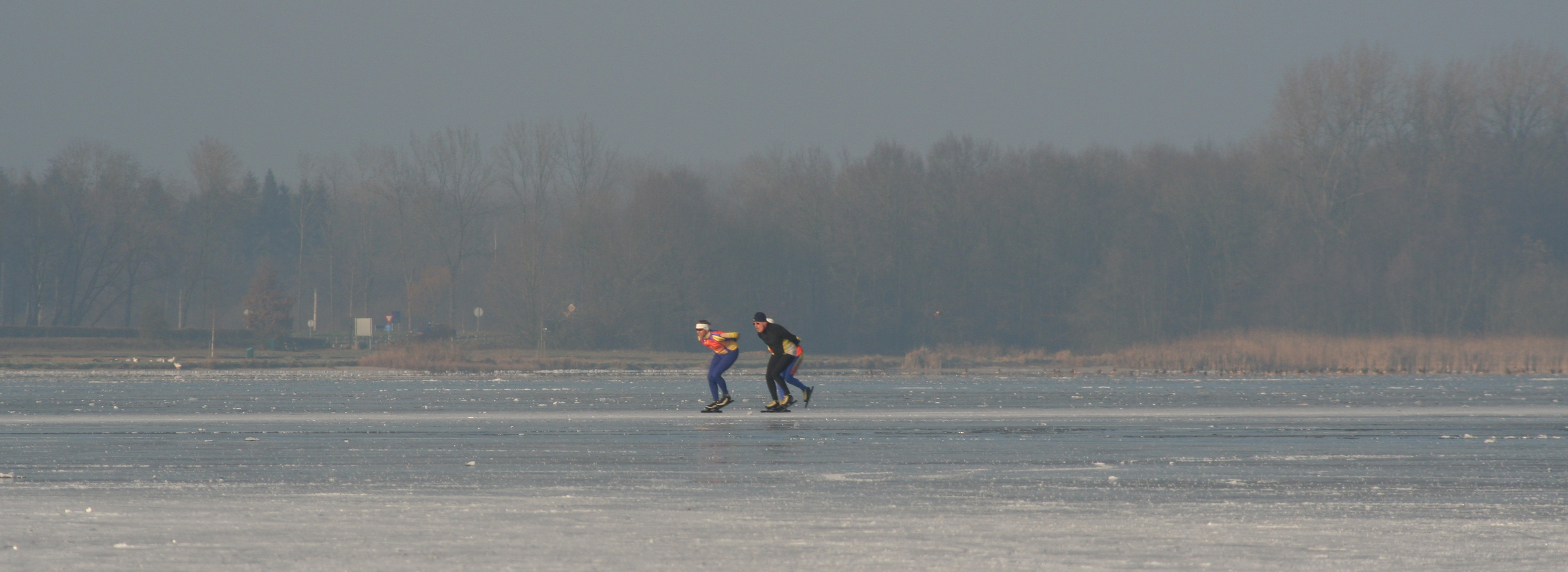 Skating